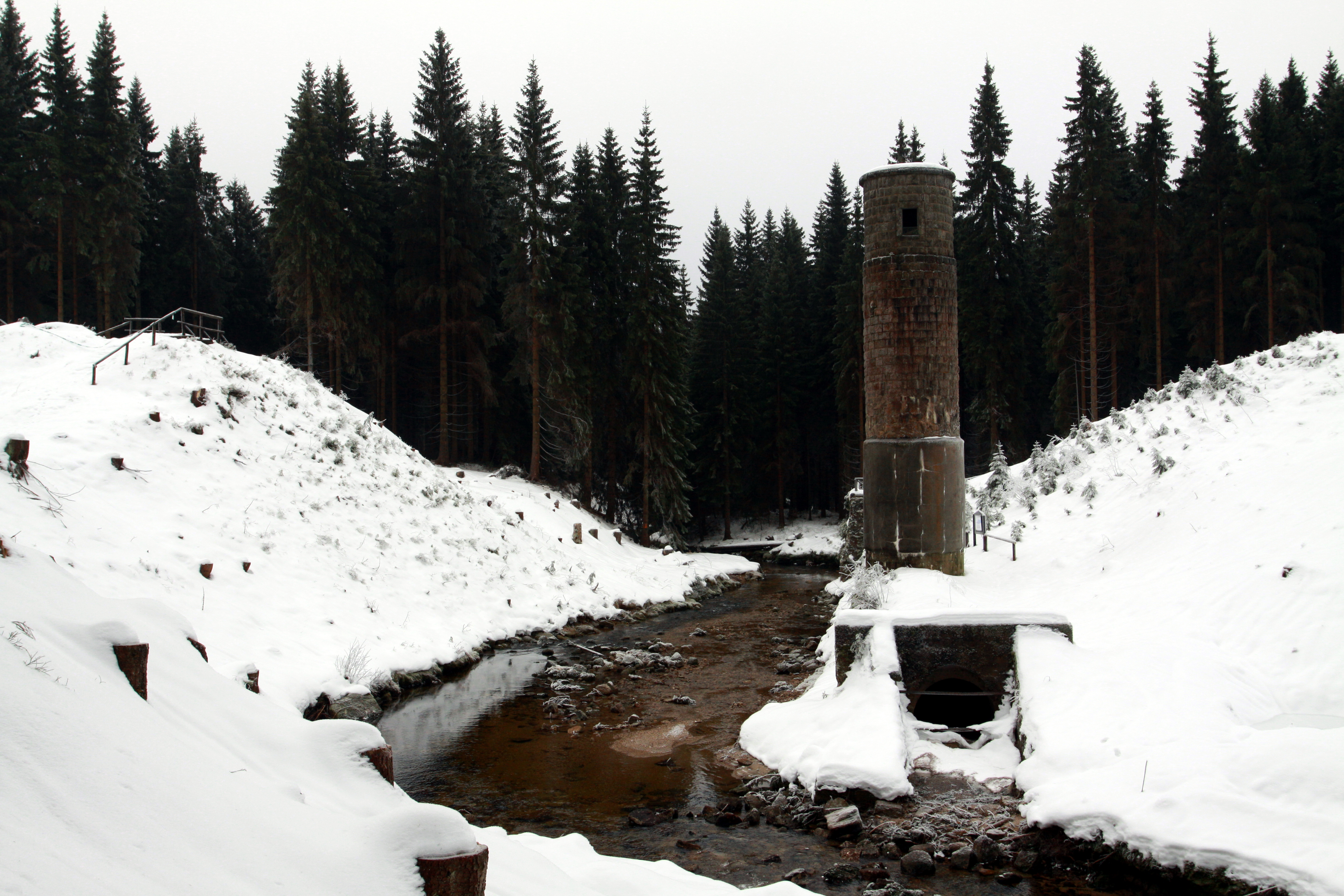 Breached Desná Reservoir on the river Bílá Desná in Liberec District during winter 2013/2014, Czech Republic - Google Maps - Google Earth